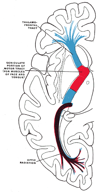 Diagram of the tracts in the internal capsule. Motor tract red. The sensory tract (blue) is not direct, but formed of neurons receiving impulses from below in the thalamus and transmitting them to the cortex. The optic radiation (occipitothalamic) is shown in violet.